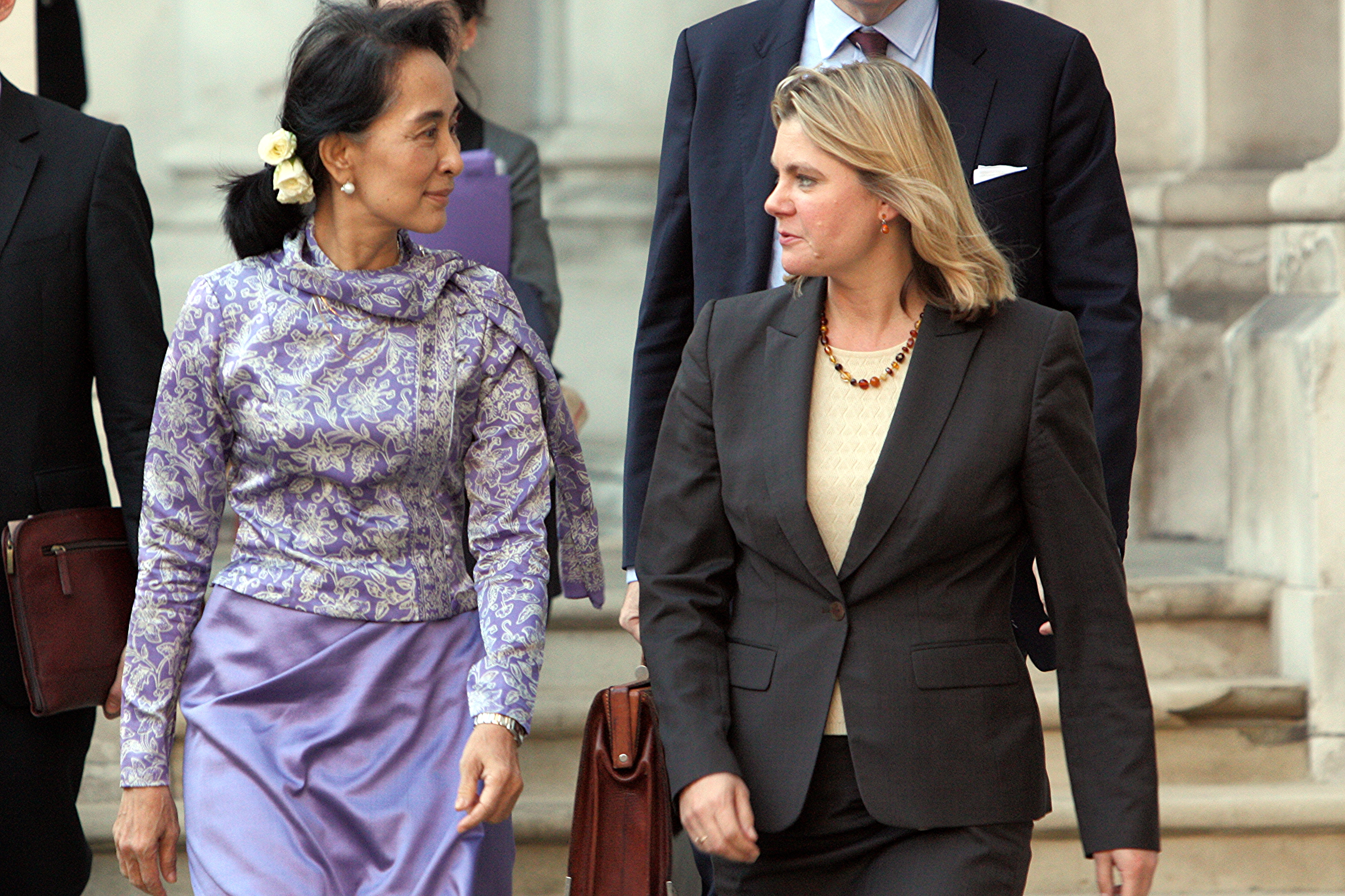 International Development Secretary Justine Greening walks with Daw Aung San Suu Kyi on the way to 10 Downing Street earlier today. The UK government has pledged to support Aung San Suu Kyi’s plans for the renovation of the Rangoon General Hospital in Burma, the Prime Minister announced today. Prime Minister David Cameron and International Development Secretary Justine Greening met with Aung San Suu Kyi today, on her second visit to the UK since her release from house arrest. They discussed the UK’s support, which will fund a team to assess plans for the renovation of the 1500-bed hospital, one of the oldest in Rangoon. International Development Secretary Justine Greening said: “Rangoon General Hospital has offered life-saving healthcare to the Burmese people for generations and it is right that we help Aung San Suu Kyi in her work to restore this crucial institution. “Her project shows that Burma is getting back to business and I am pleased to support this and the country’s wider agenda of healthcare reform.” "We also talked about violence against women, responsible business development in Burma and DFID’s work to help companies improve standards." The Department for International Development is undertaking this work alongside the Yangon General Hospital International Reinvigoration Committee Picture: FCO/Patrick Tsui